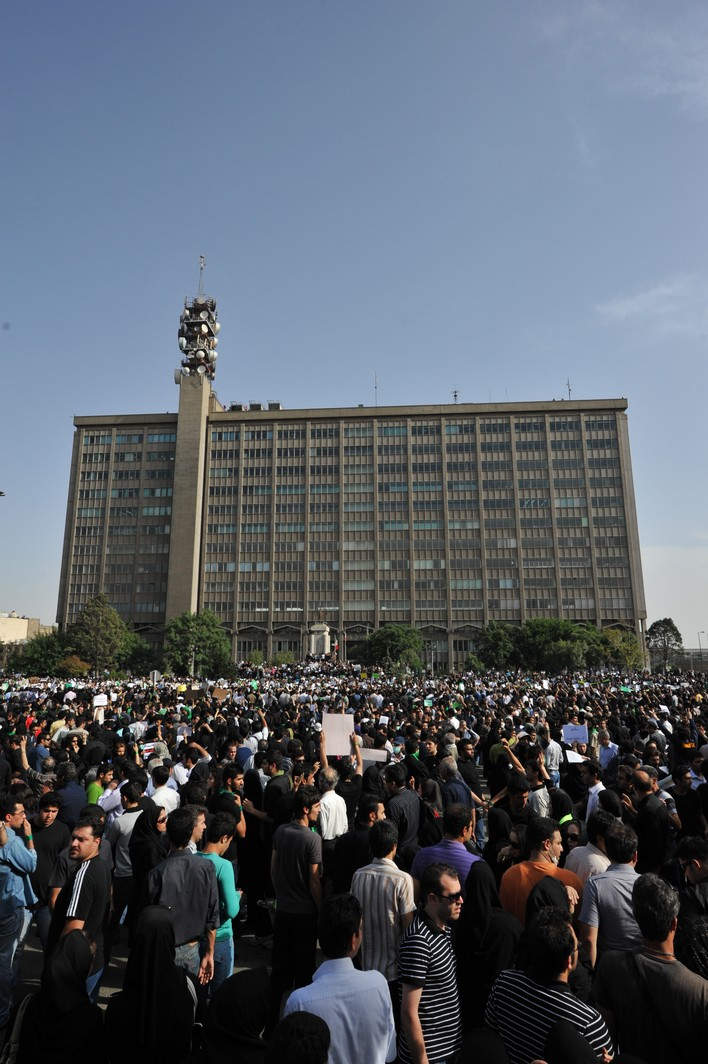 Silent demonstration in Tehran on June 17 - part of the 2009 Iranian election protests